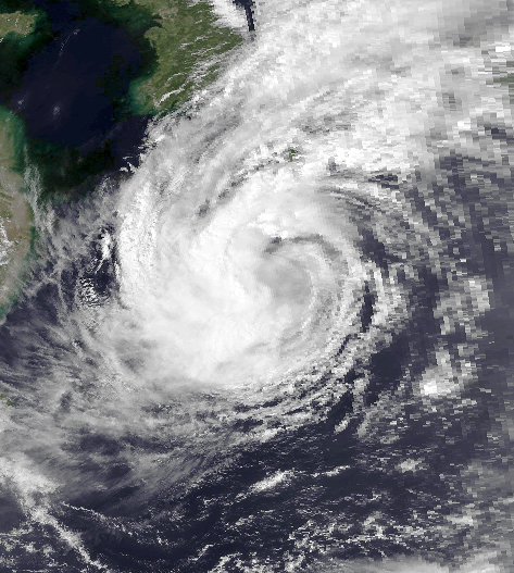 Typhoon Gladys on August 21, 1991. At the time Gladys had winds of 62.7 knts (72.2 mph, 116.2 kph), 1-min sustained and a pressure of 965 mbar. Gladys was about 80 miles away from land. This image was taken by the NOAA-11 Satellite.